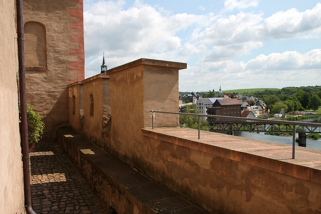 Rochlitz, Rochlitz Castle.